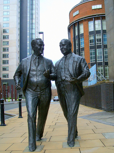 A statue of John Moores (left) with his brother, Cecil Moores